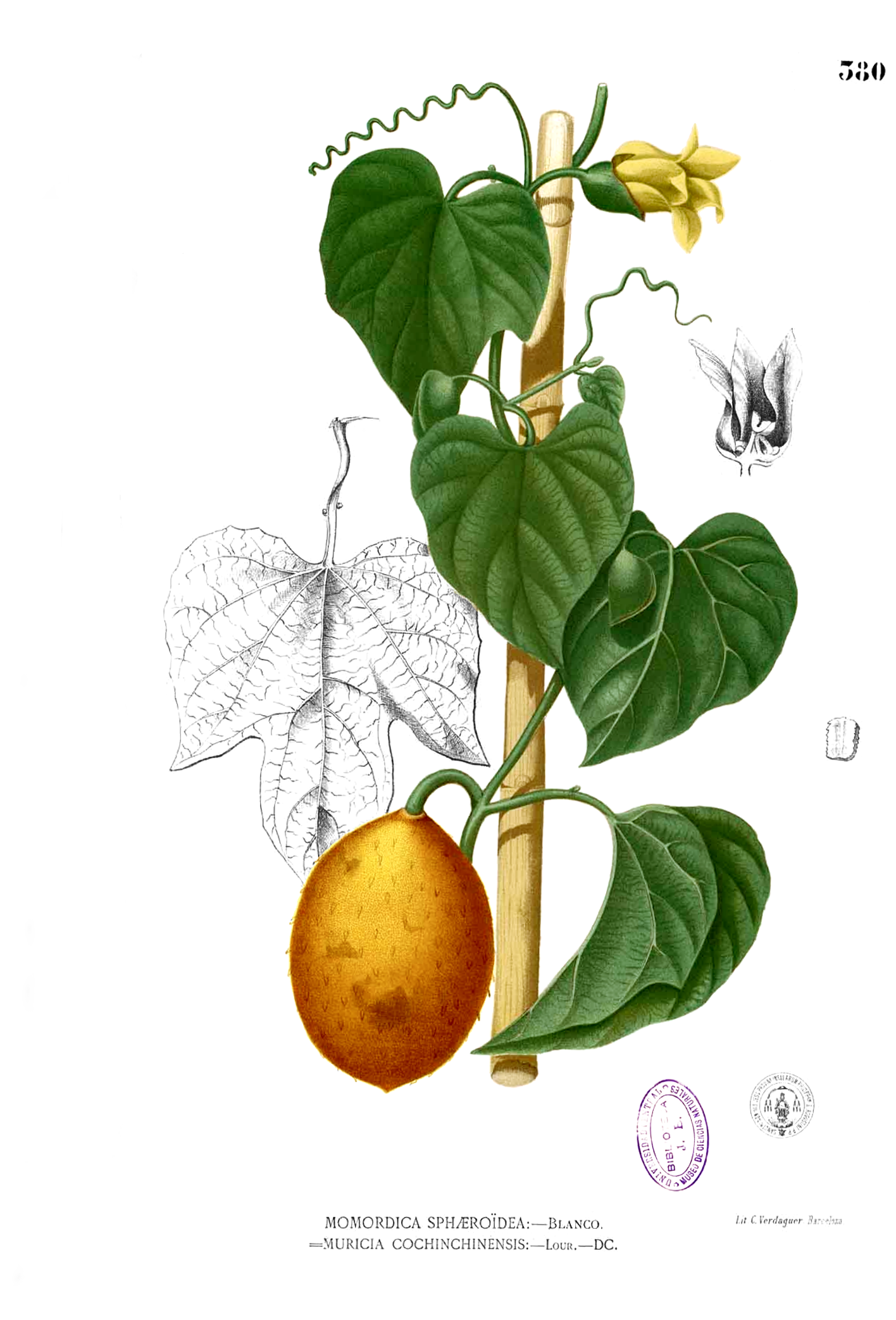 Plate from book